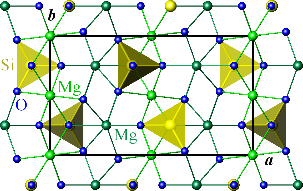 Crystal structure of Mg2SiO4 (olivine, Pnma) projected onto the (a, b) plane. Green: magnesium atoms, yellow: silicon atoms, blue: oxygen atoms.